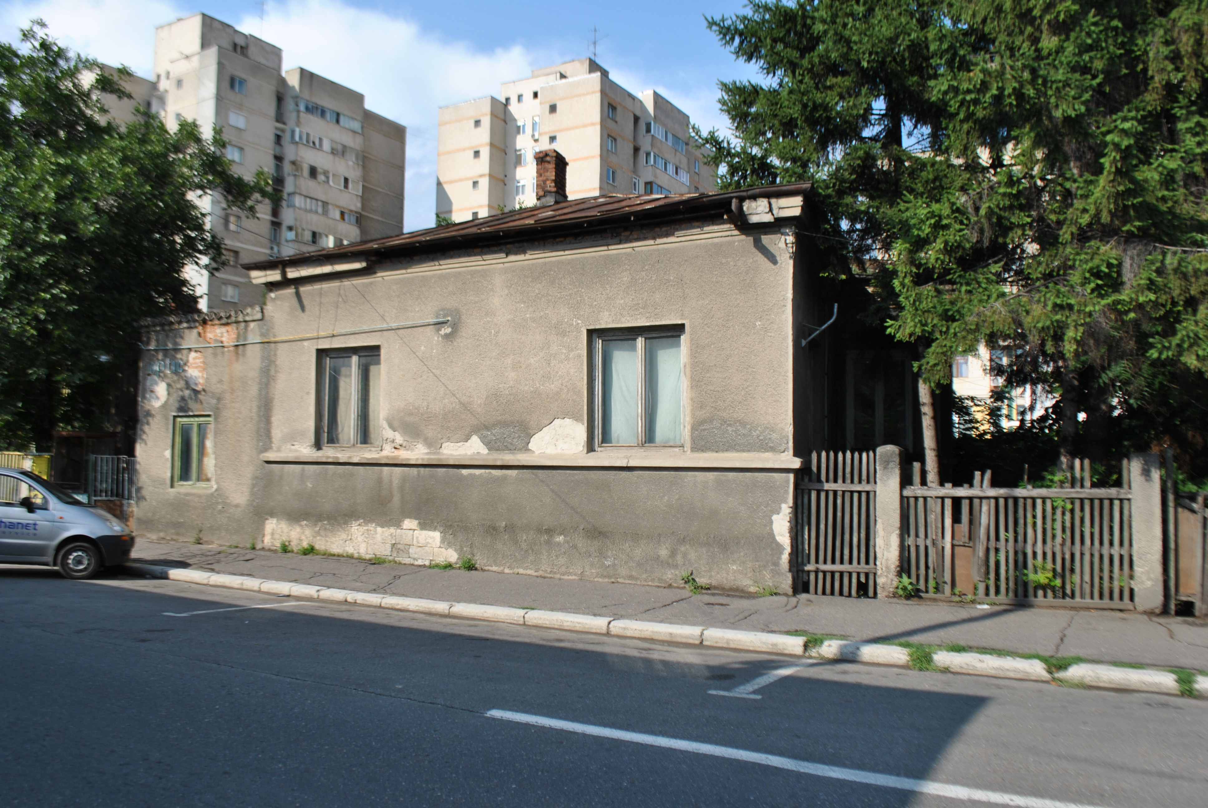 Ion Andreescu's house in Buzău, RomaniaRomână: Casa lui Ion Andreescu din Buzău, România